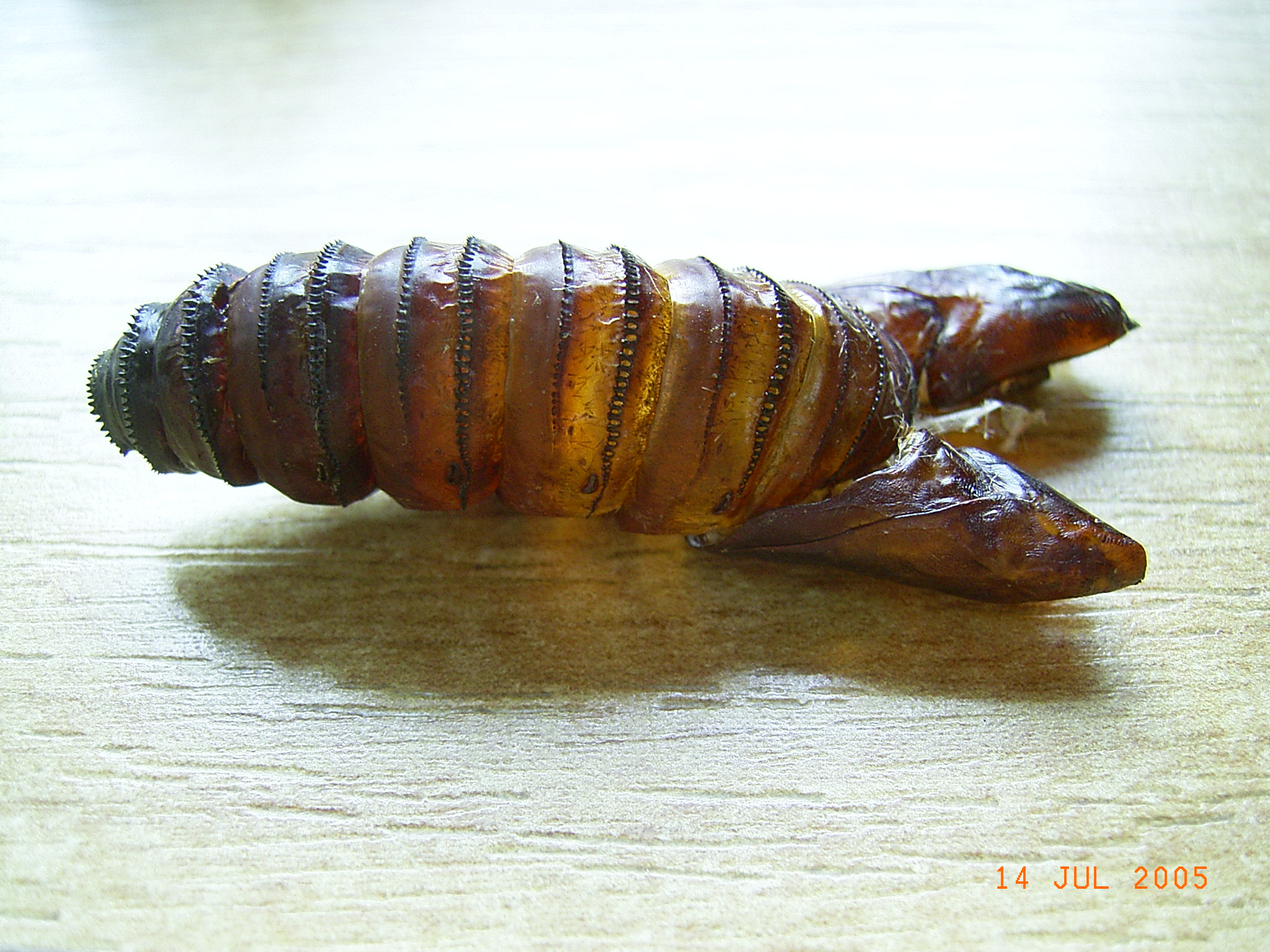 Found in the grass several m away from the tree, where the larva lives